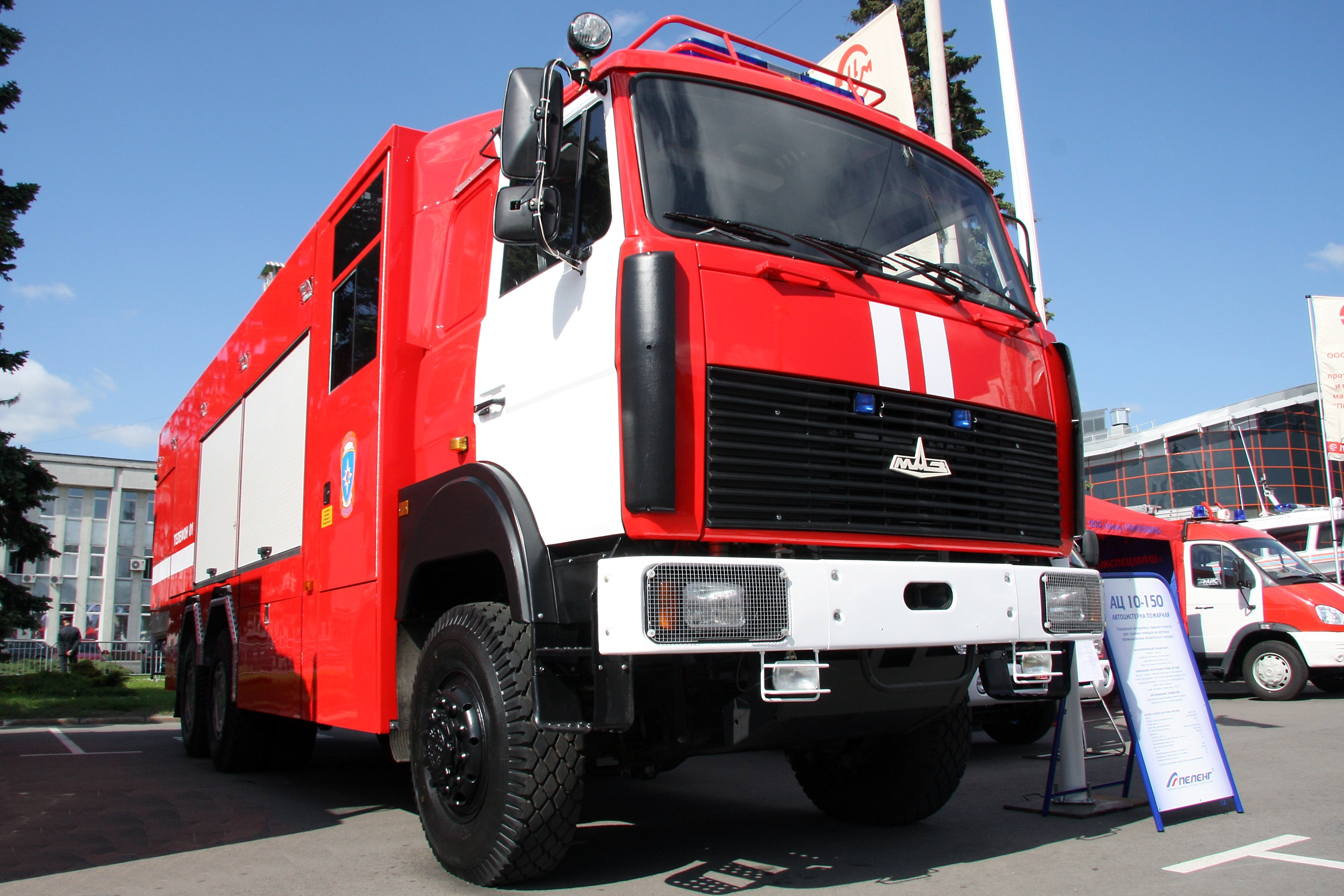 Firefighting vehicle ATs 10-150 on MAZ-631708 chassis at ISSE-2010 in Russia.